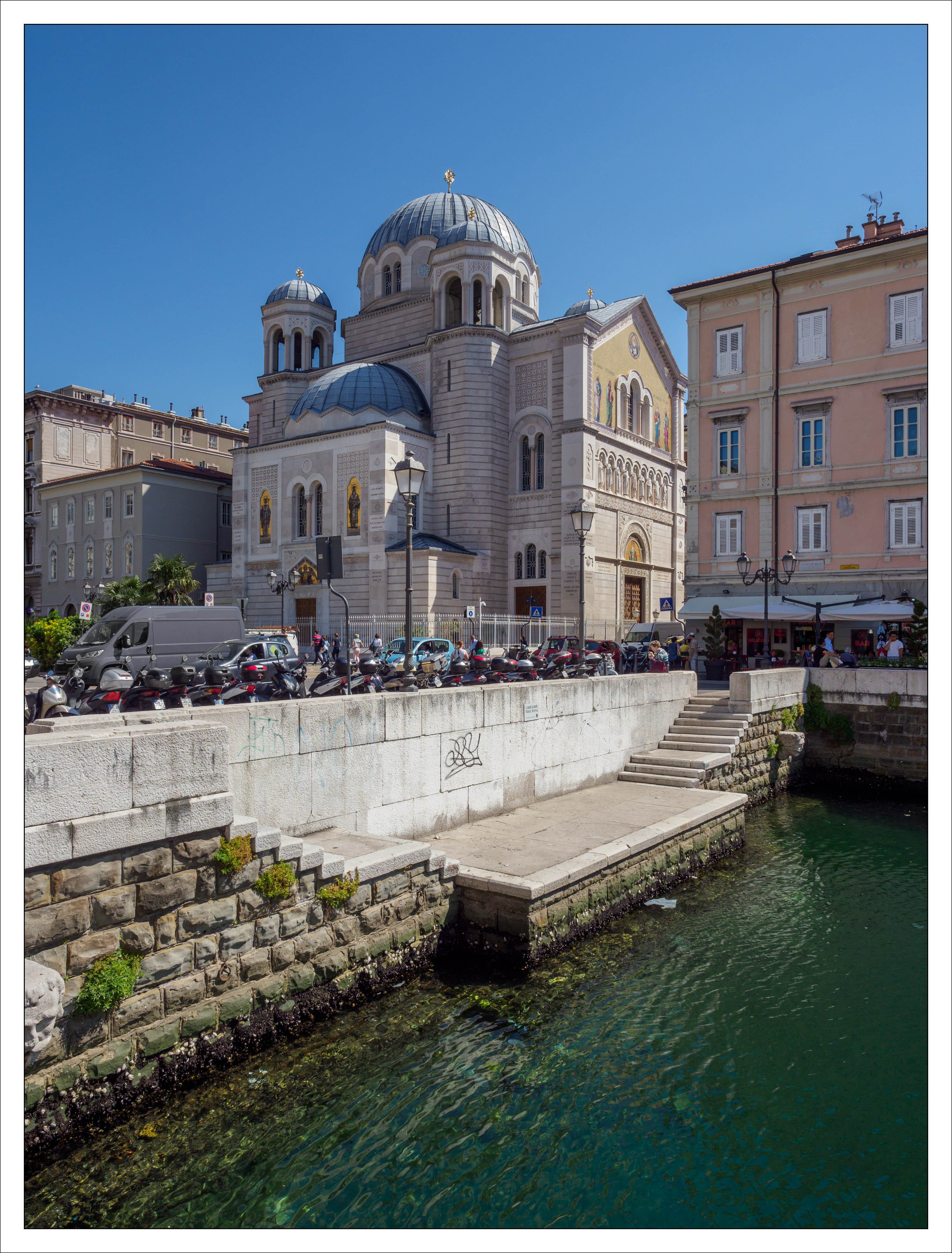 Andreas Manessinger, , Creative Commons BY-SA